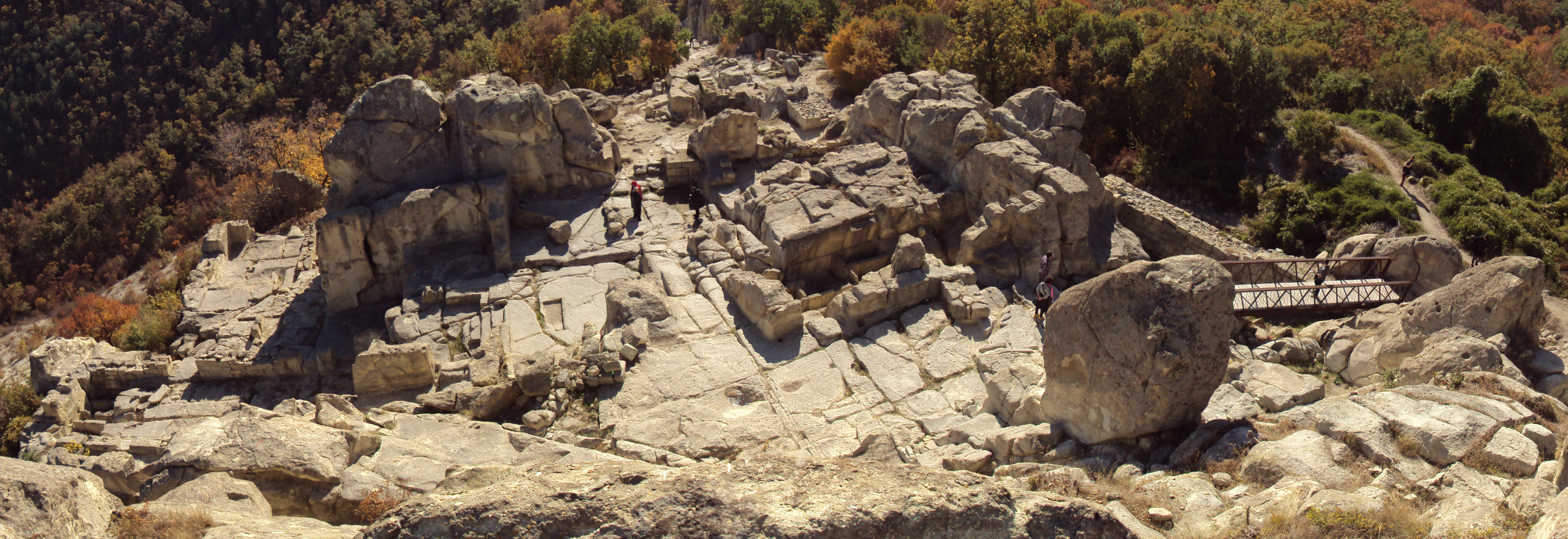 Perperikon, Kardzhali District, Bulgaria